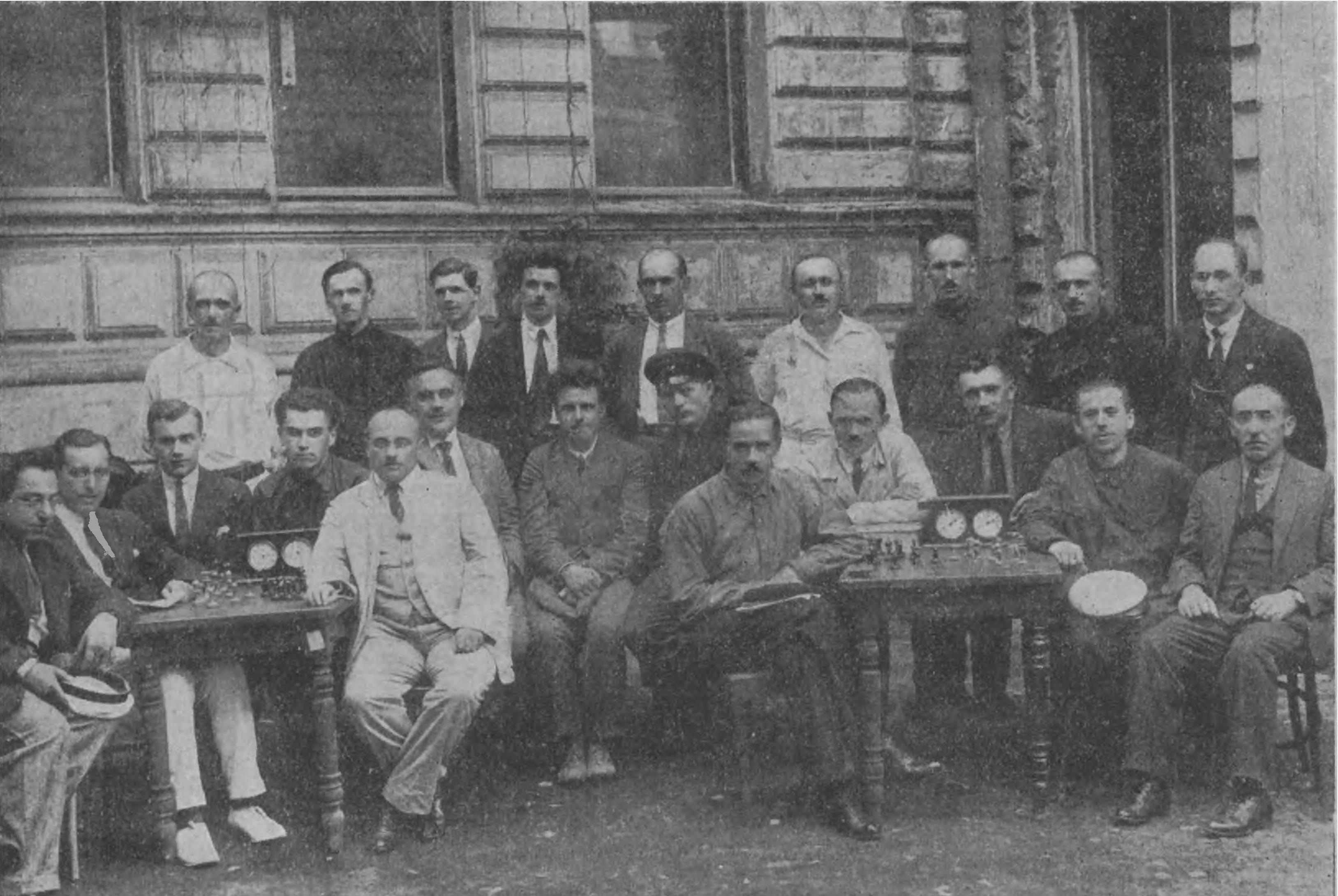 4th ussr chess championship 1925